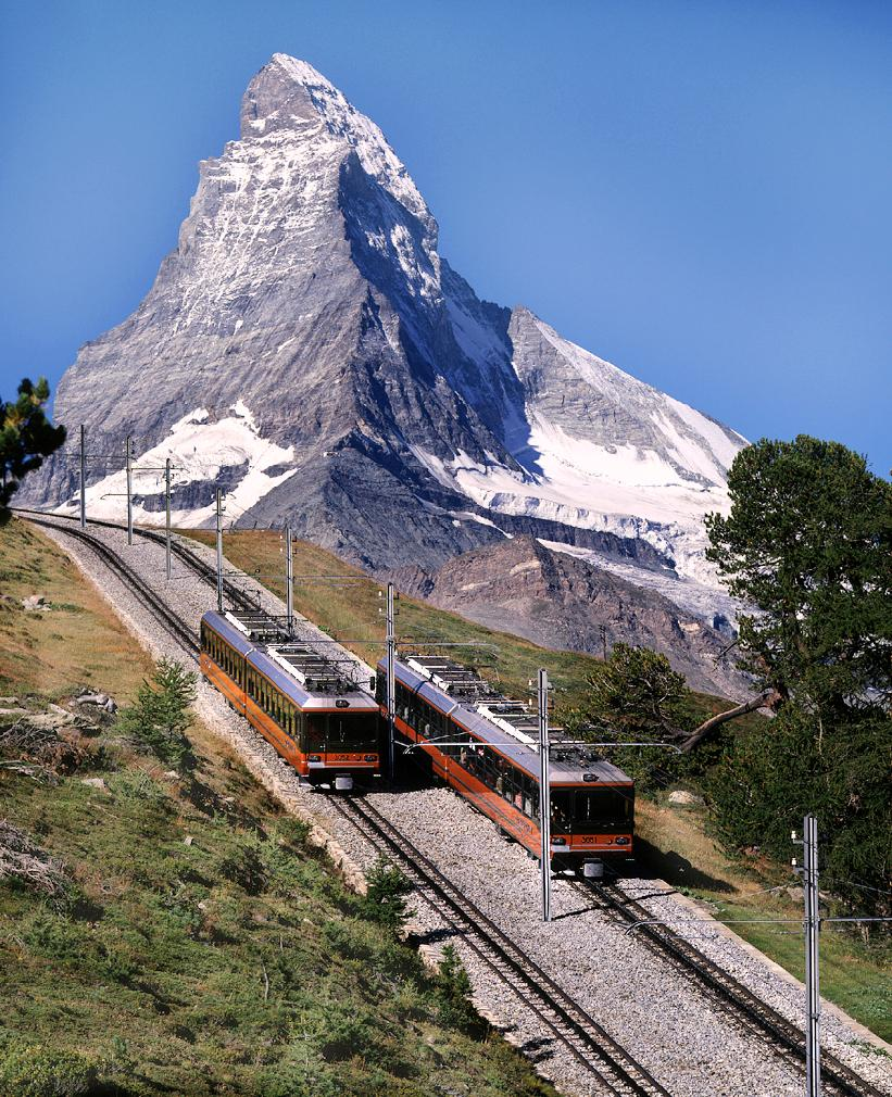 Gornergratbahn and Matterhorn (4478 metres), above Zermatt